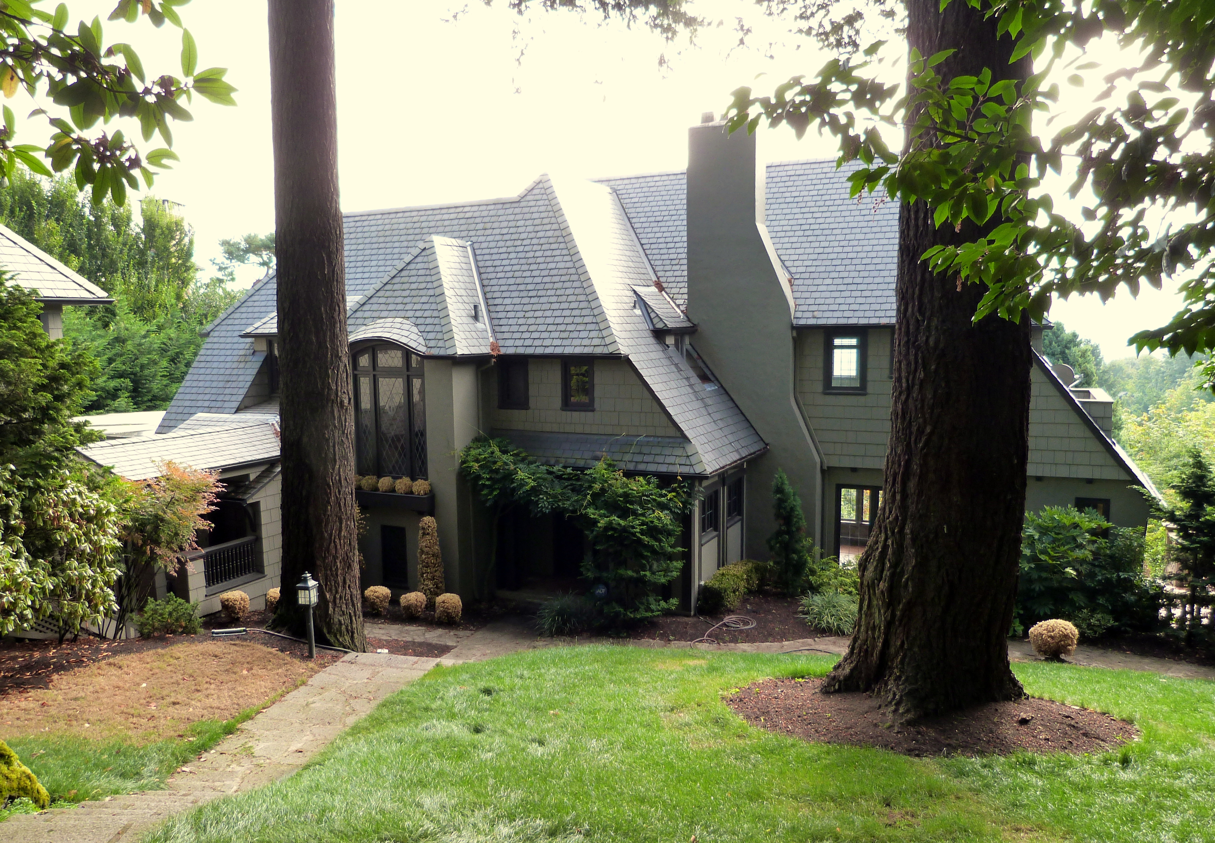 The historic Maurice Seitz House (built 1925), located at 1495 Southwest Clifton Street in Portland, Oregon, United States, is listed on the US National Register of Historic Places.